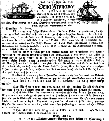 Dona Francisca Newspaper Ad, 1849